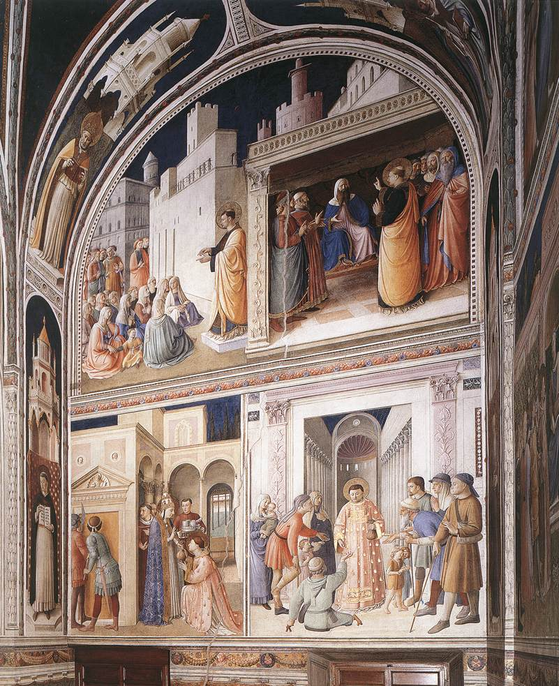 ANGELICO, Fra Scenes from the Lives of Sts Lawrence and Stephen Fresco Cappella Niccolina, Palazzi Pontifici, Vatican